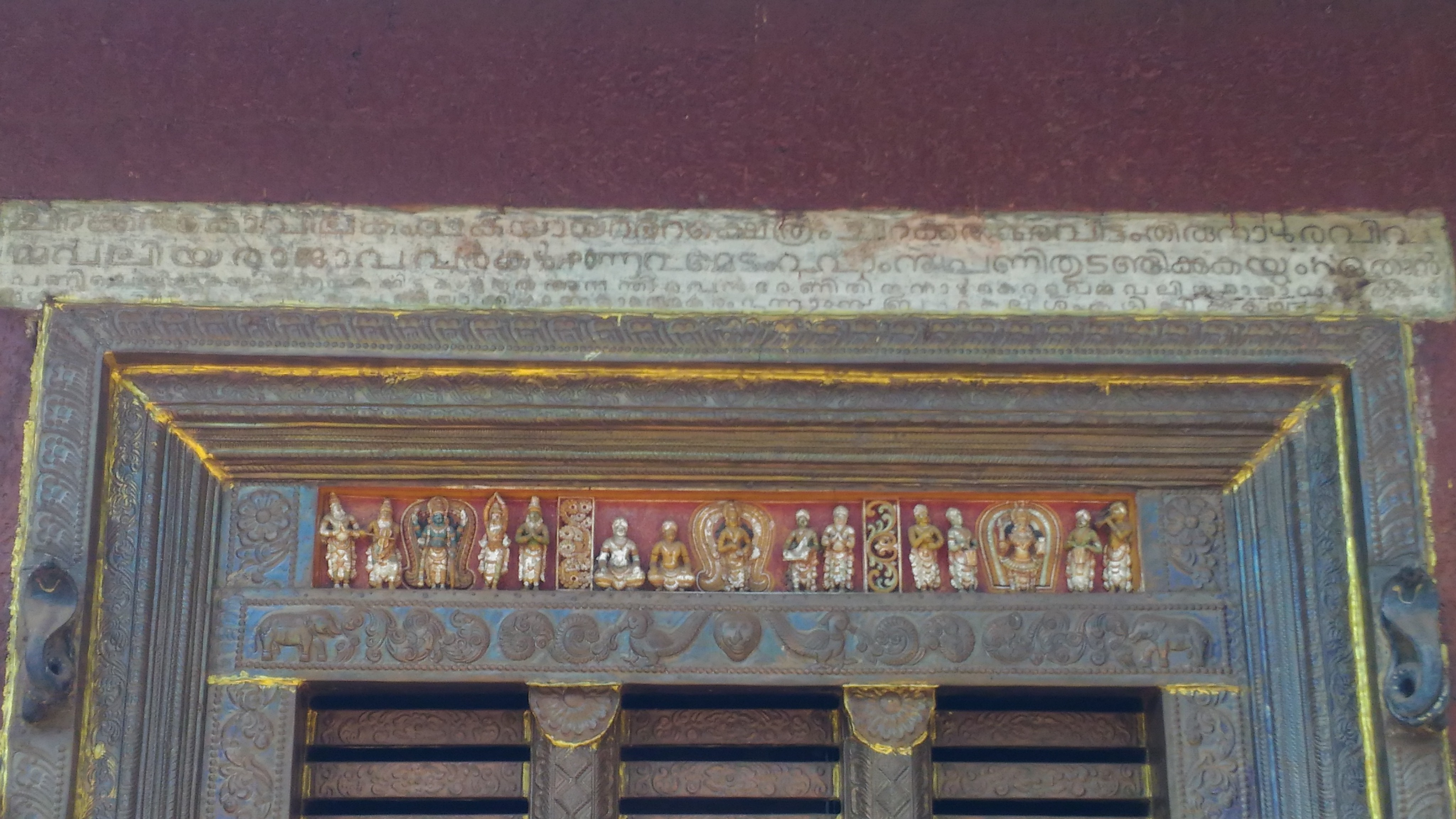 inscription on stone